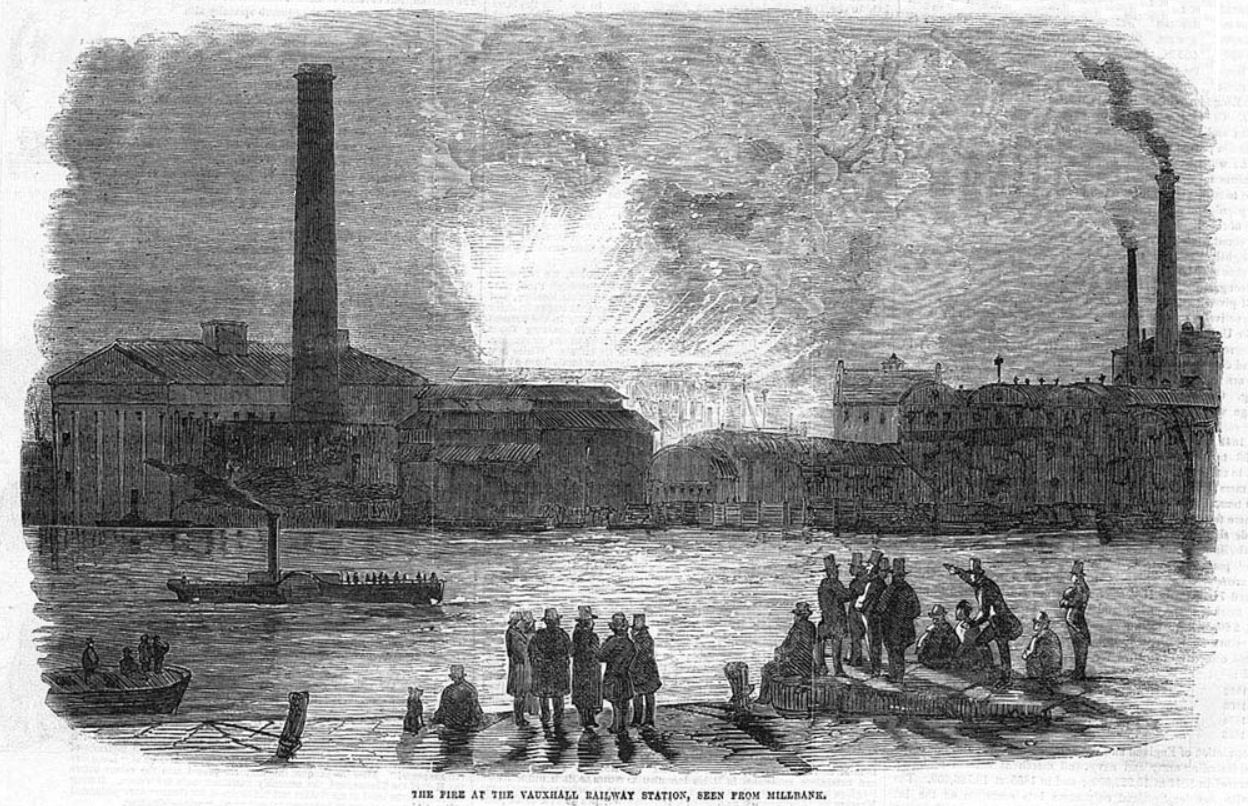 Contemporary engraving of the Vauxhall station fire, London, England, April 1856